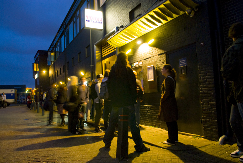 Tivoli de Helling